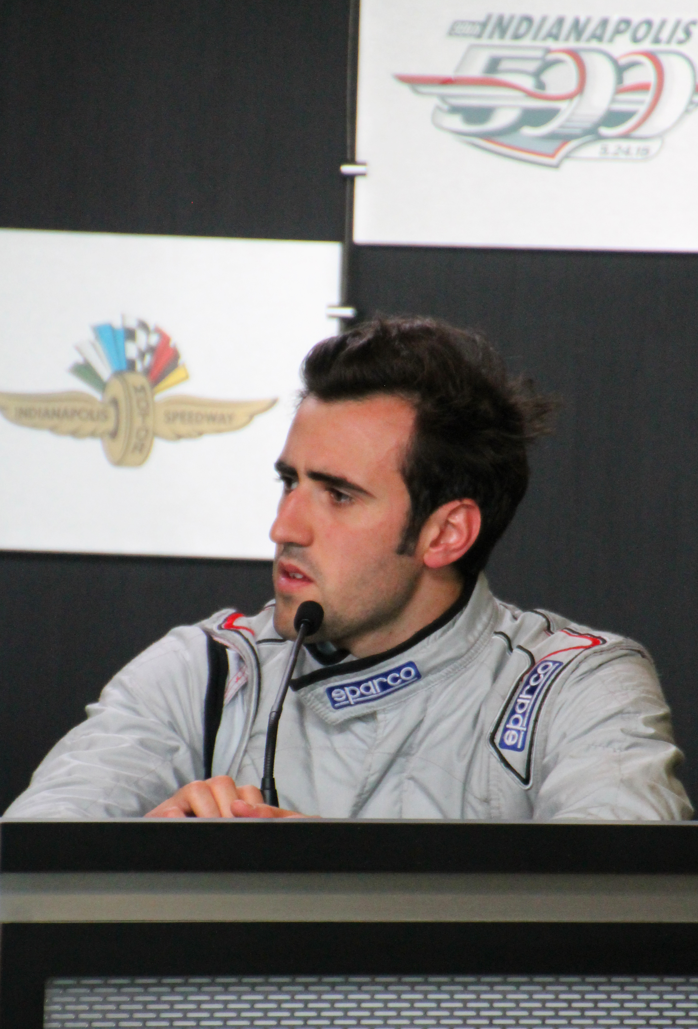 Tristan Vautier at a press conference during Carb Day 2015 at the Indianapolis Motor Speedway.